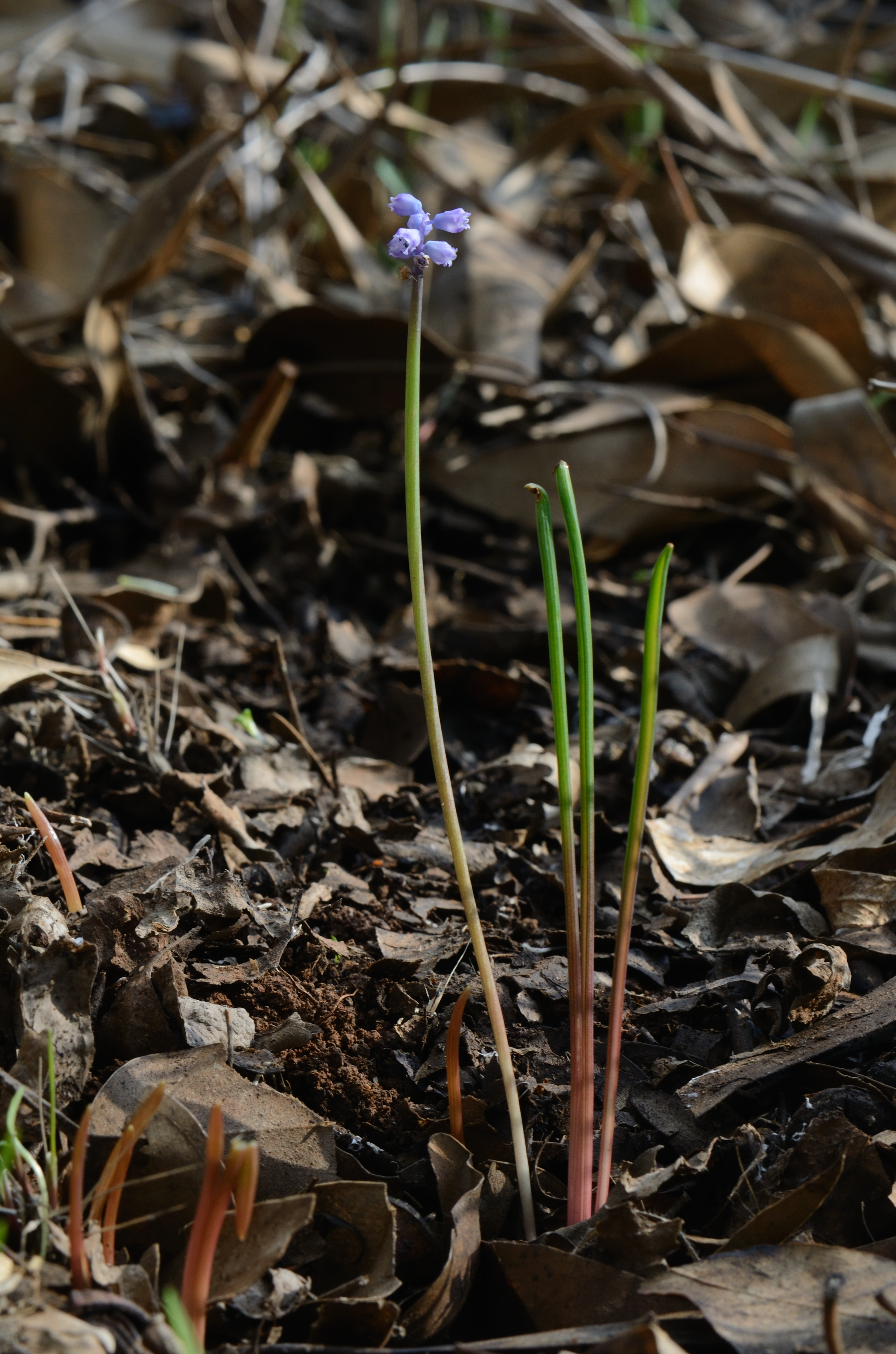 Muscari parviflorum Desf., Ya'ar Lavi, Lower Galilee, Israel, November 24, 2011.